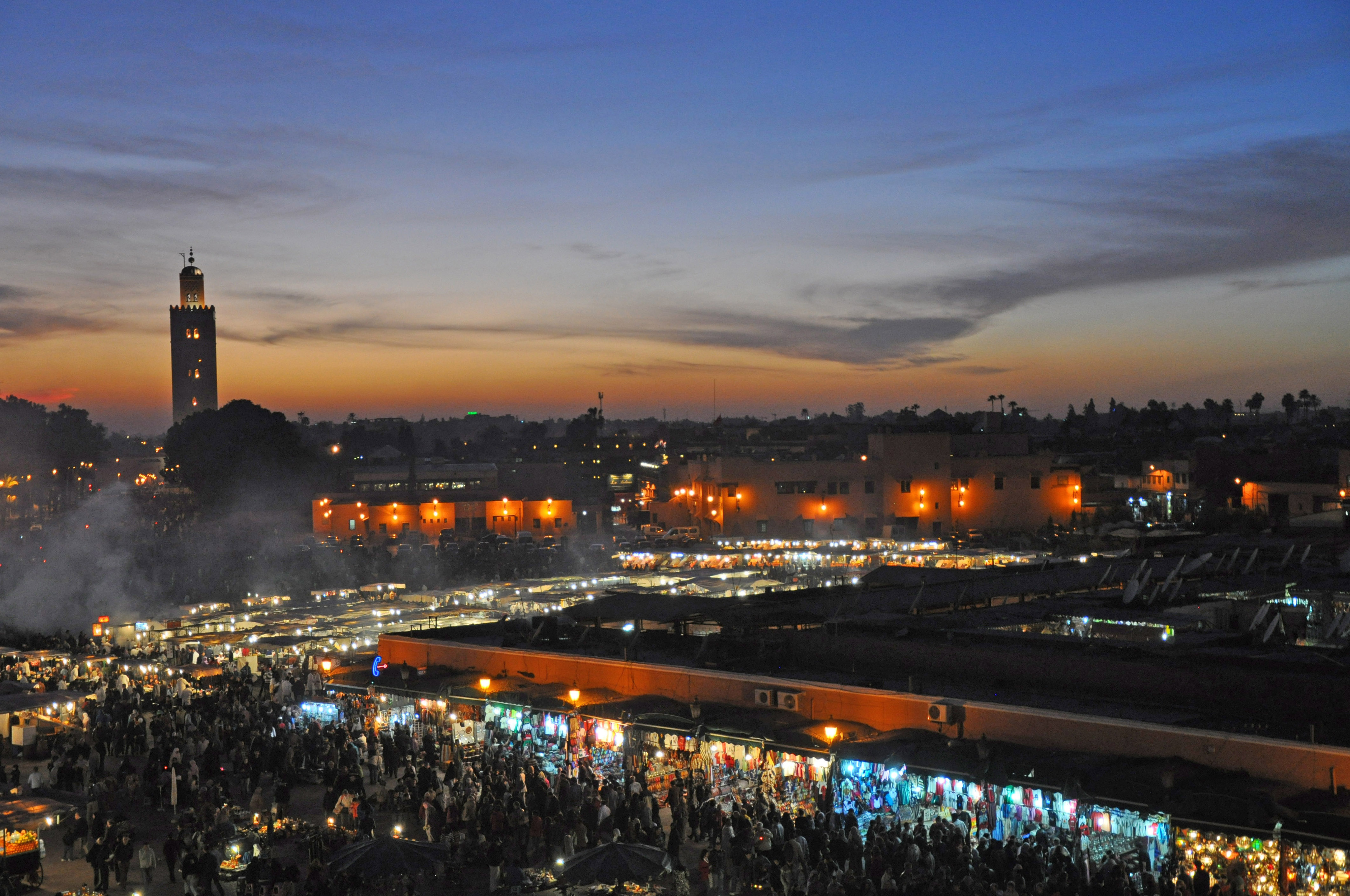 Jamaa el Fna (Arabic: ساحة جامع الفناء jâmiʻ al-fanâʼ) is a square and market place in Marrakesh's medina quarter (old city). The place remains the main square of Marrakesh, used by locals and tourists. During the day it is predominantly occupied by orange juice stalls, youths with chained Barbary apes, water sellers in colourful costumes with traditional leather water-bags and brass cups, and snake charmers who will pose for photographs for tourists. As the day progresses, the entertainment on offer changes: the snake charmers depart, and late in the day the square becomes more crowded, with Chleuh dancing-boys (it would be against custom for girls to provide such entertainment), story-tellers (telling their tales in Berber or Arabic, to an audience of appreciative locals), magicians, and peddlers of traditional medicines. As darkness falls, the square fills with dozens of food-stalls as the number of people on the square peaks. Steam rising from food stalls The square is edged along one side by the Marrakesh souk, a traditional North African market catering both for the common daily needs of the locals, and for the tourist trade. On other sides are hotels and gardens and cafe terraces offering an escape from the noise and confusion of the square.